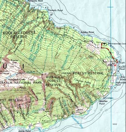 Cropped version of Image:HaleakalaMap.jpg for use in elevation